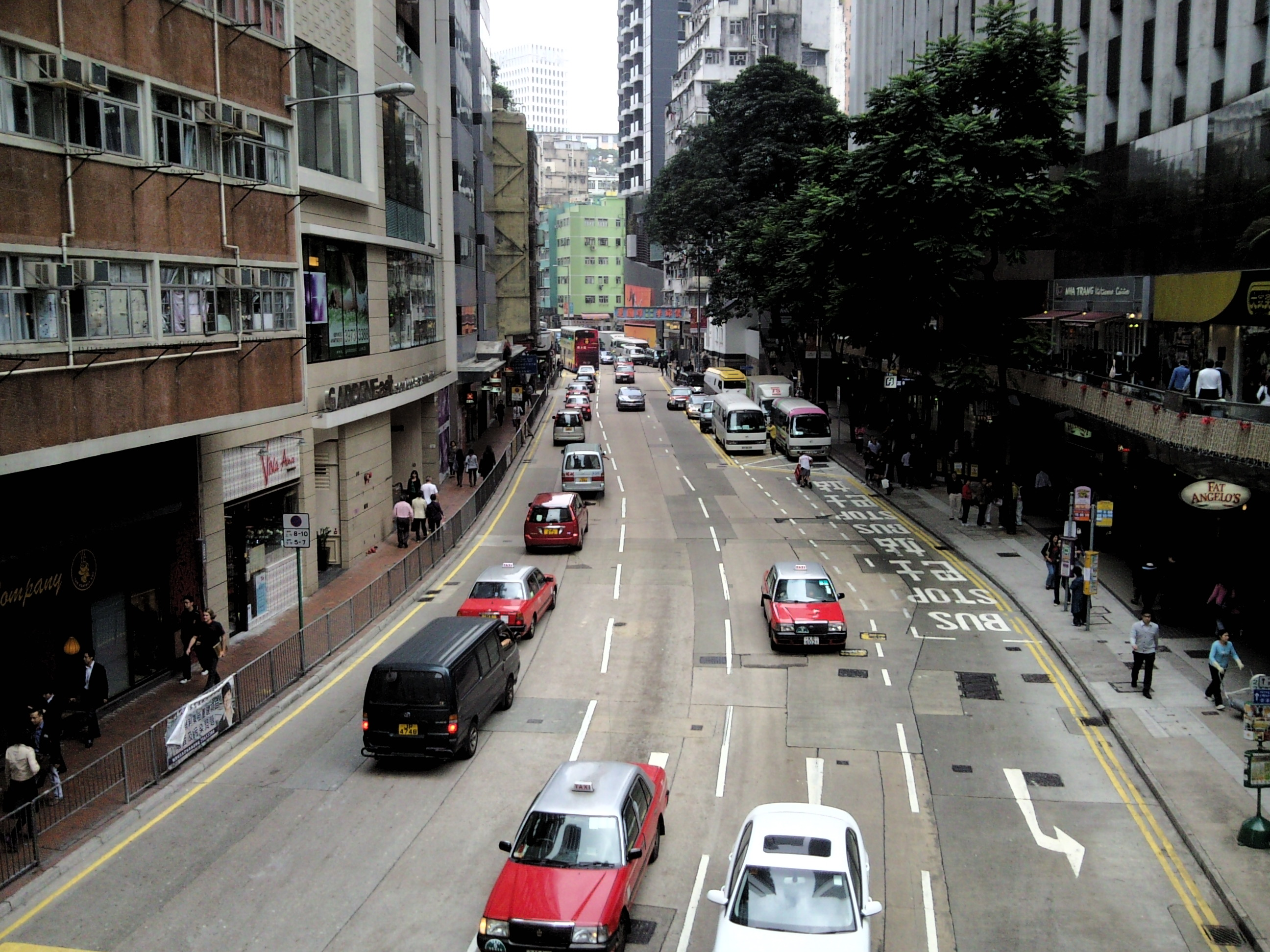 Queen's Road East near Wu Chung House in Hong Kong